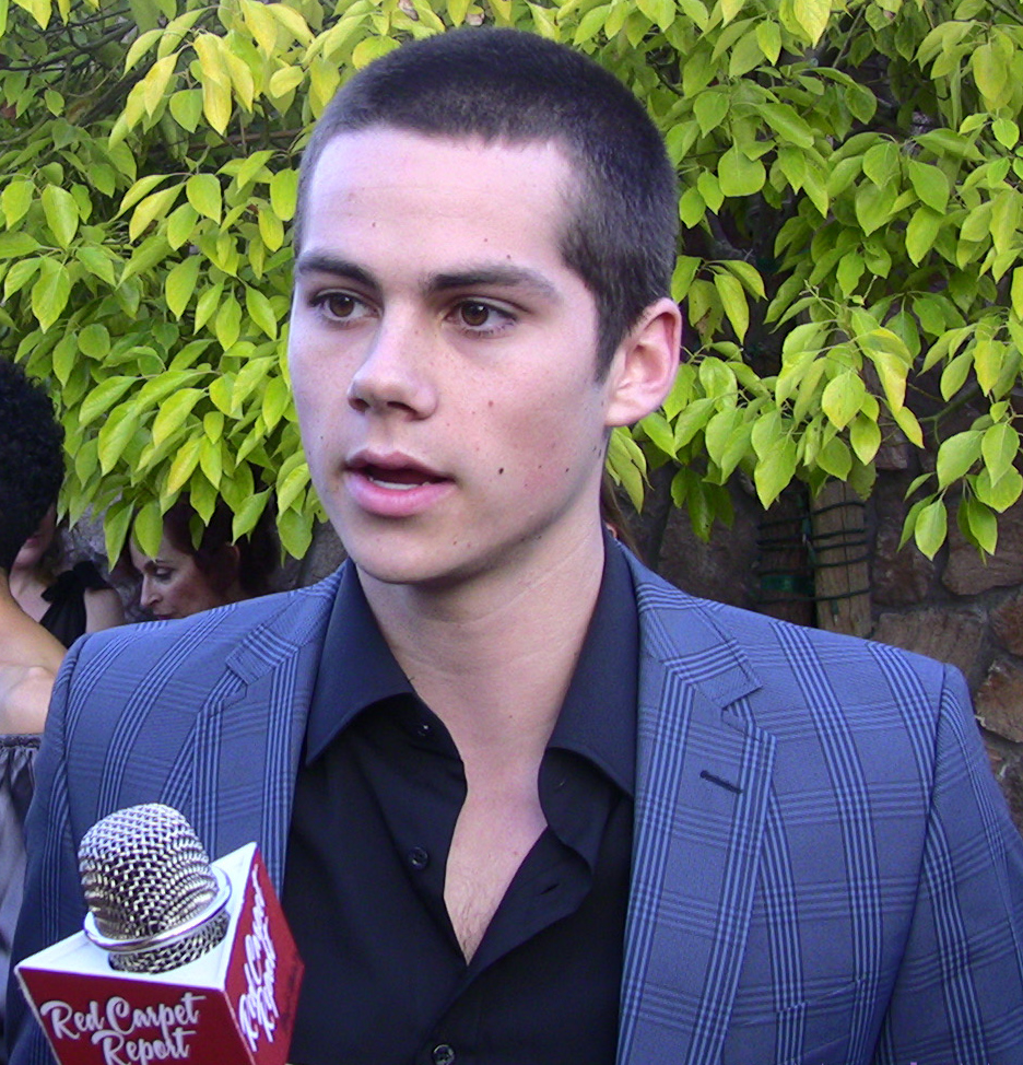 Actor Dylan O'Brien at the 37th Saturn Awards